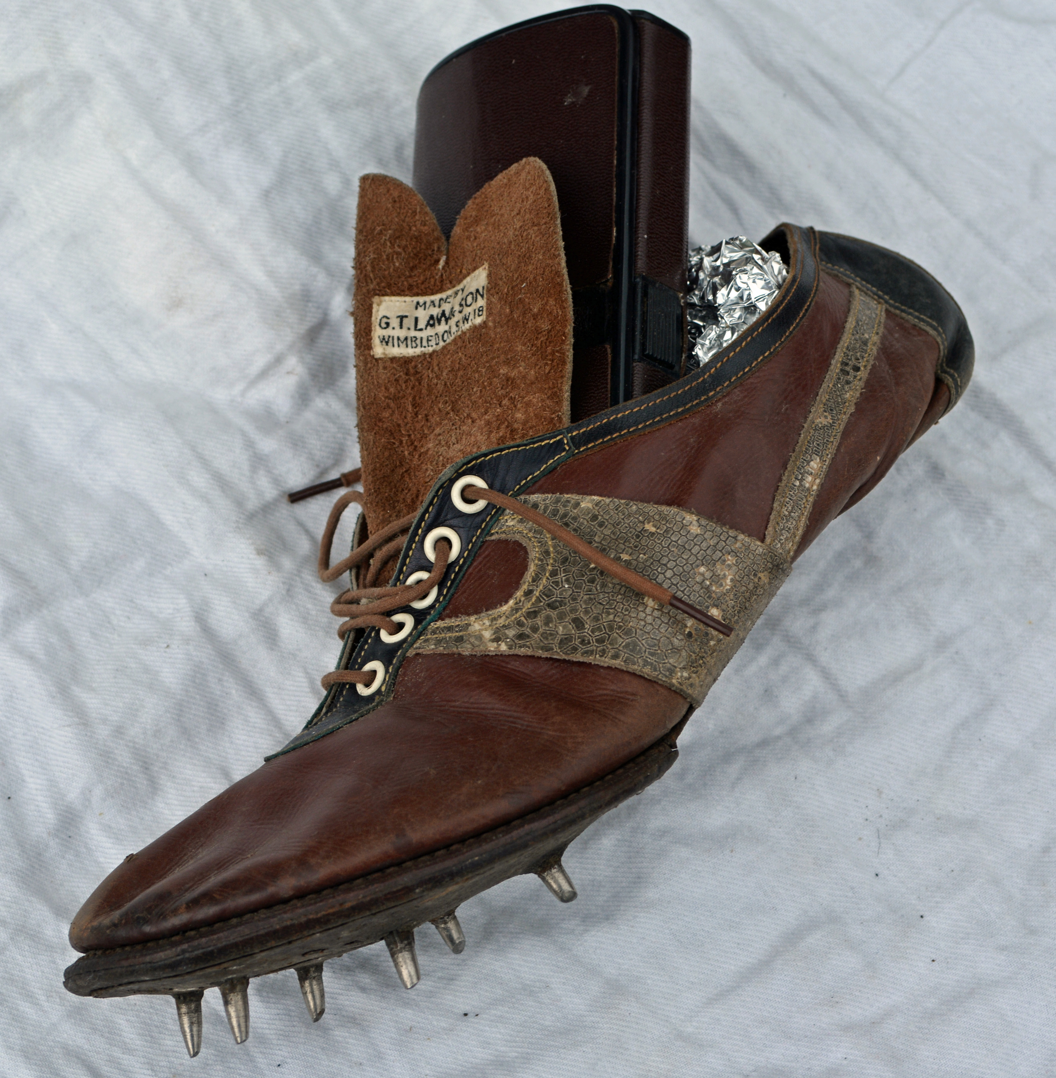 One of a small pair of running spikes made by G.T.Law & Son, Wimbledon, London S.W.18. Possibly mid 20thC with snakeskin banding. A glasses case and foil are being used to aid display